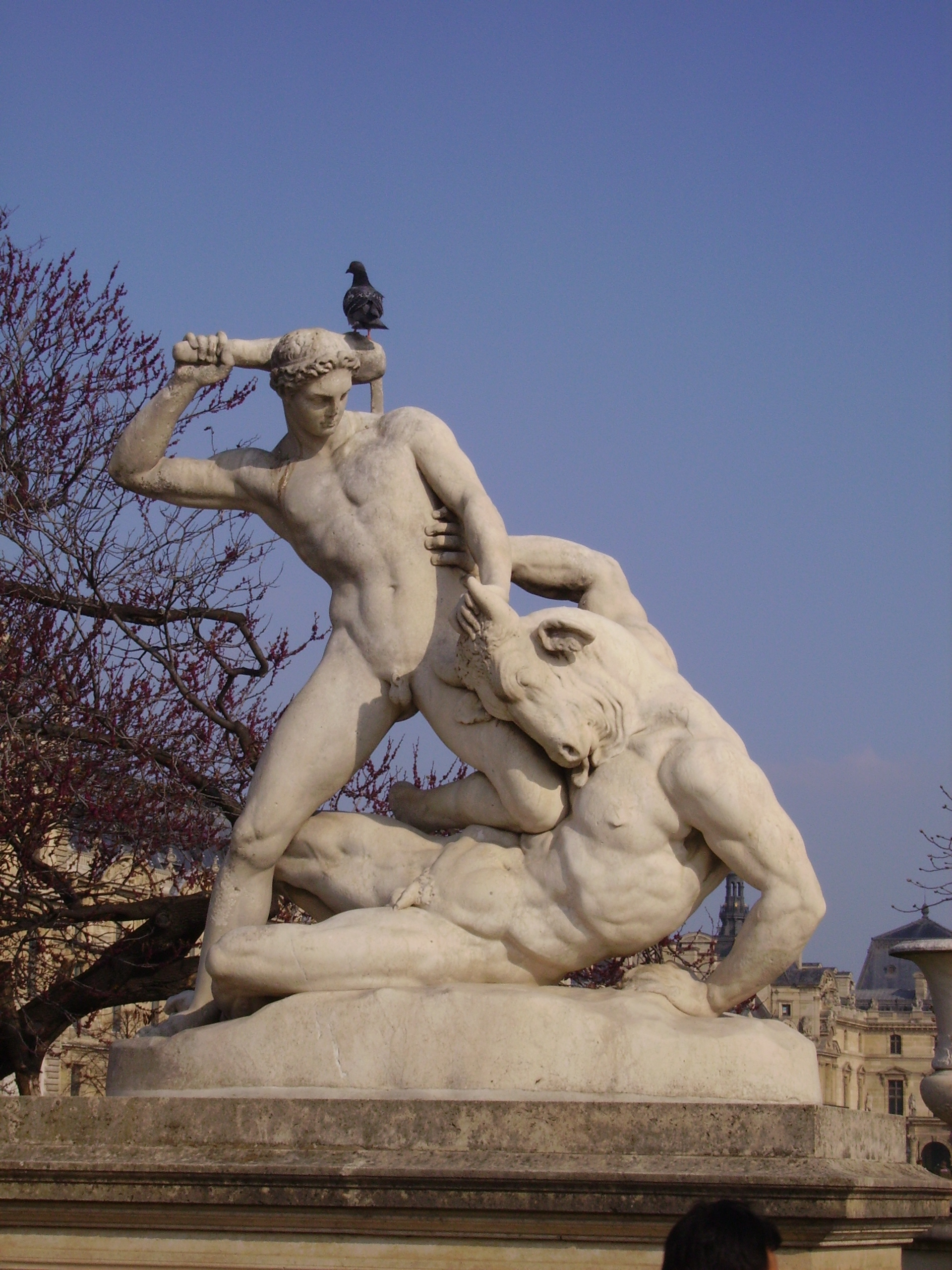 Theseus fighting the Minotaur by Étienne-Jules Ramey (French, 1796–1852). Marble, 1826. In the Tuileries Gardens, Paris.